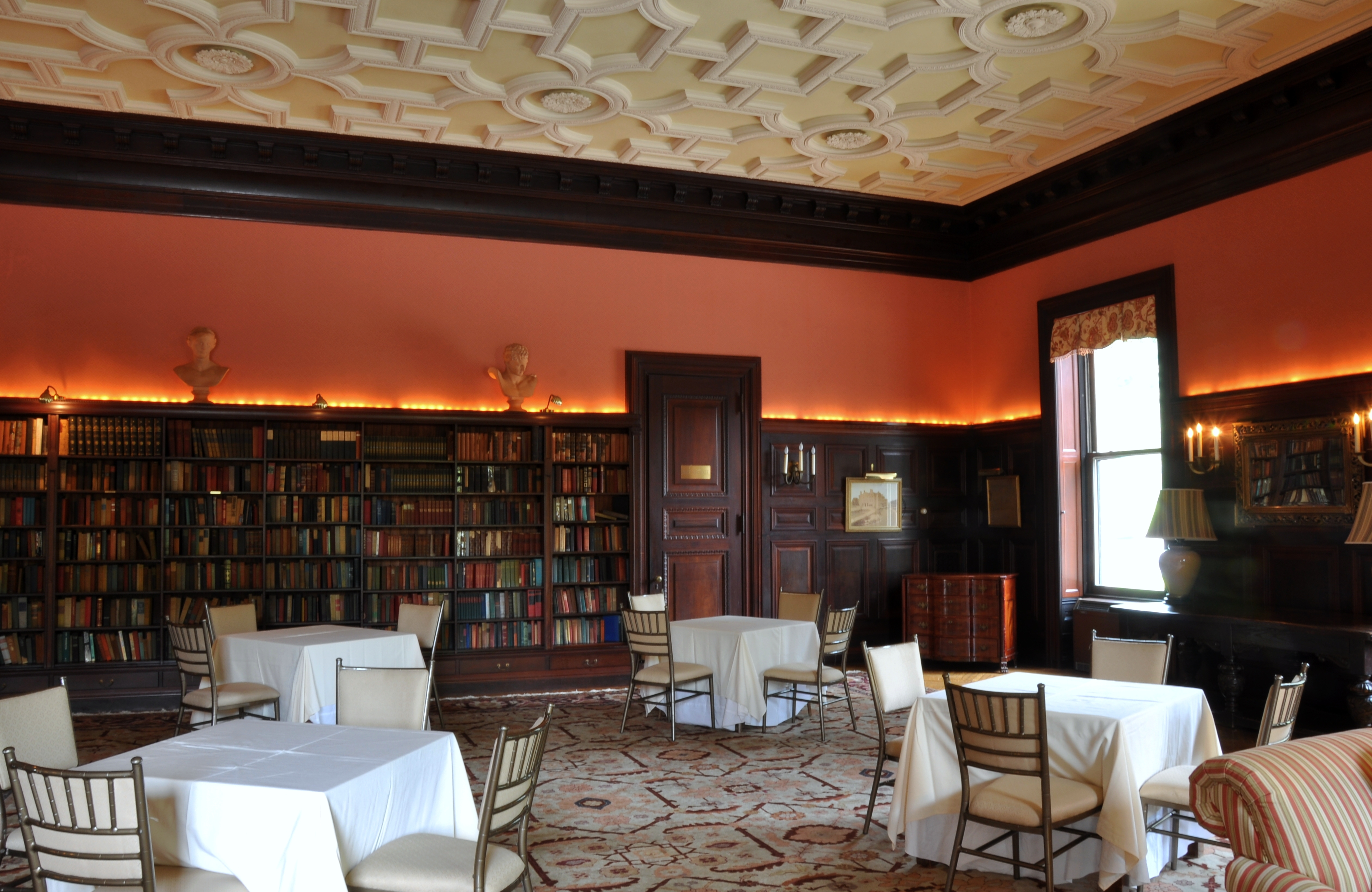 Woodlea, the clubhouse of Sleepy Hollow Country Club. Taken July 27, 2014.